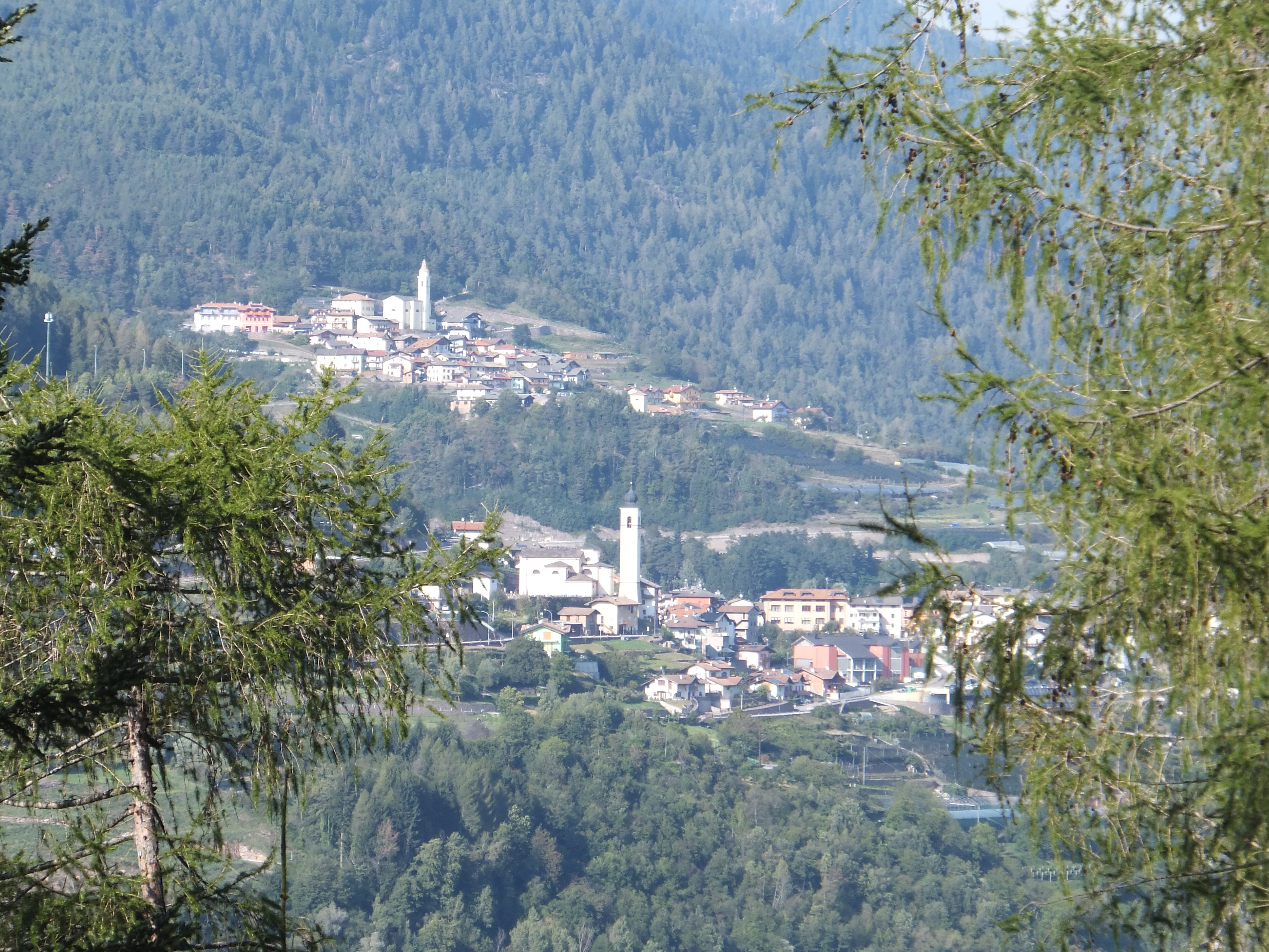 The towns of Grauno (above) and Grumes (below) seen from the Sanctuary of the Madonna of Aid (Segonzano)